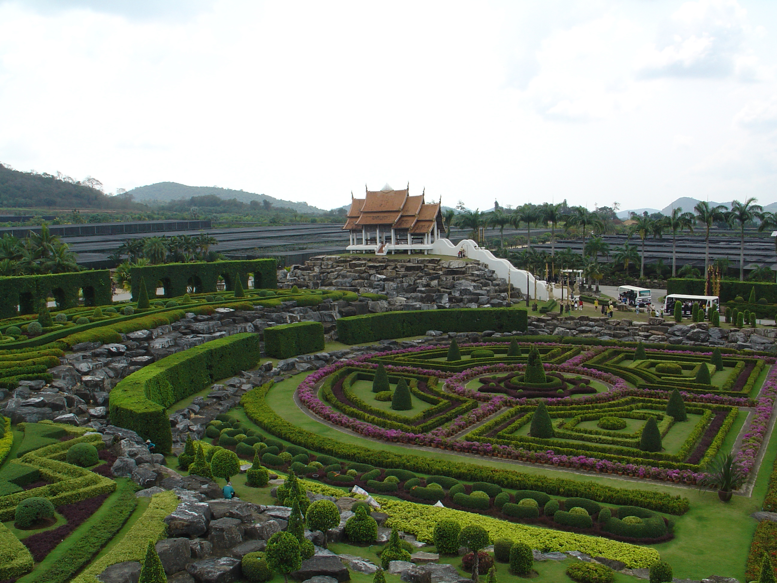 Nong Nooch Garden, Pattaya.